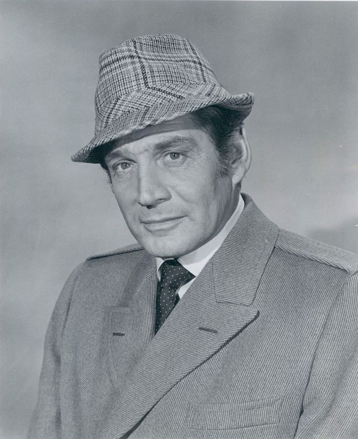 Publicity photo Gene Barry as David London, a character in Istanbul Express